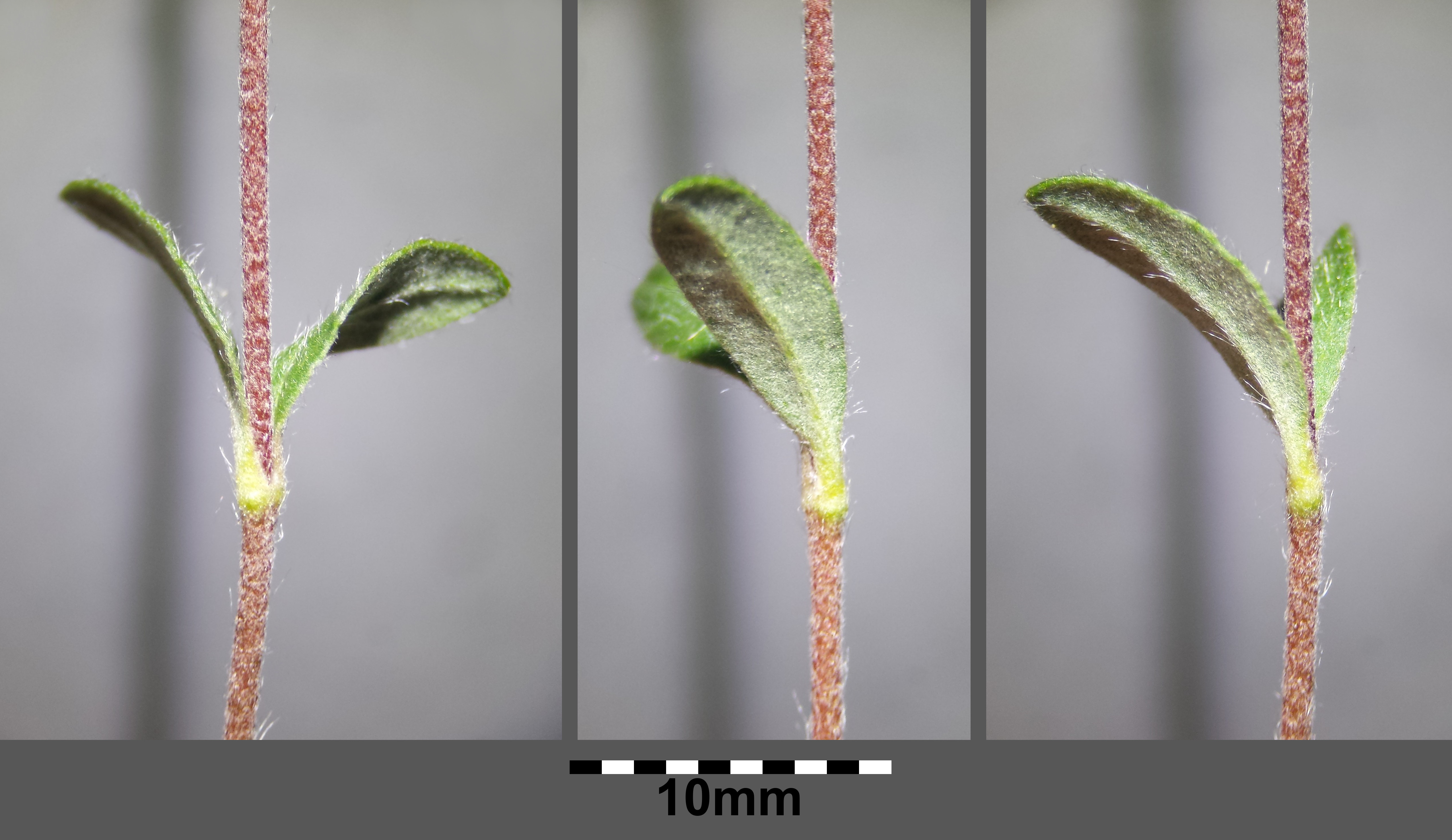 Stem with leaves Taxonym: Helianthemum canum ss Fischer et al. EfÖLS 2008 ISBN 978-3-85474-187-9 Location: Blosenberg near Winzendorf, district Wiener Neustadt, Lower Austria - ca. 380 m a.s.l. Habitat: dry grassland